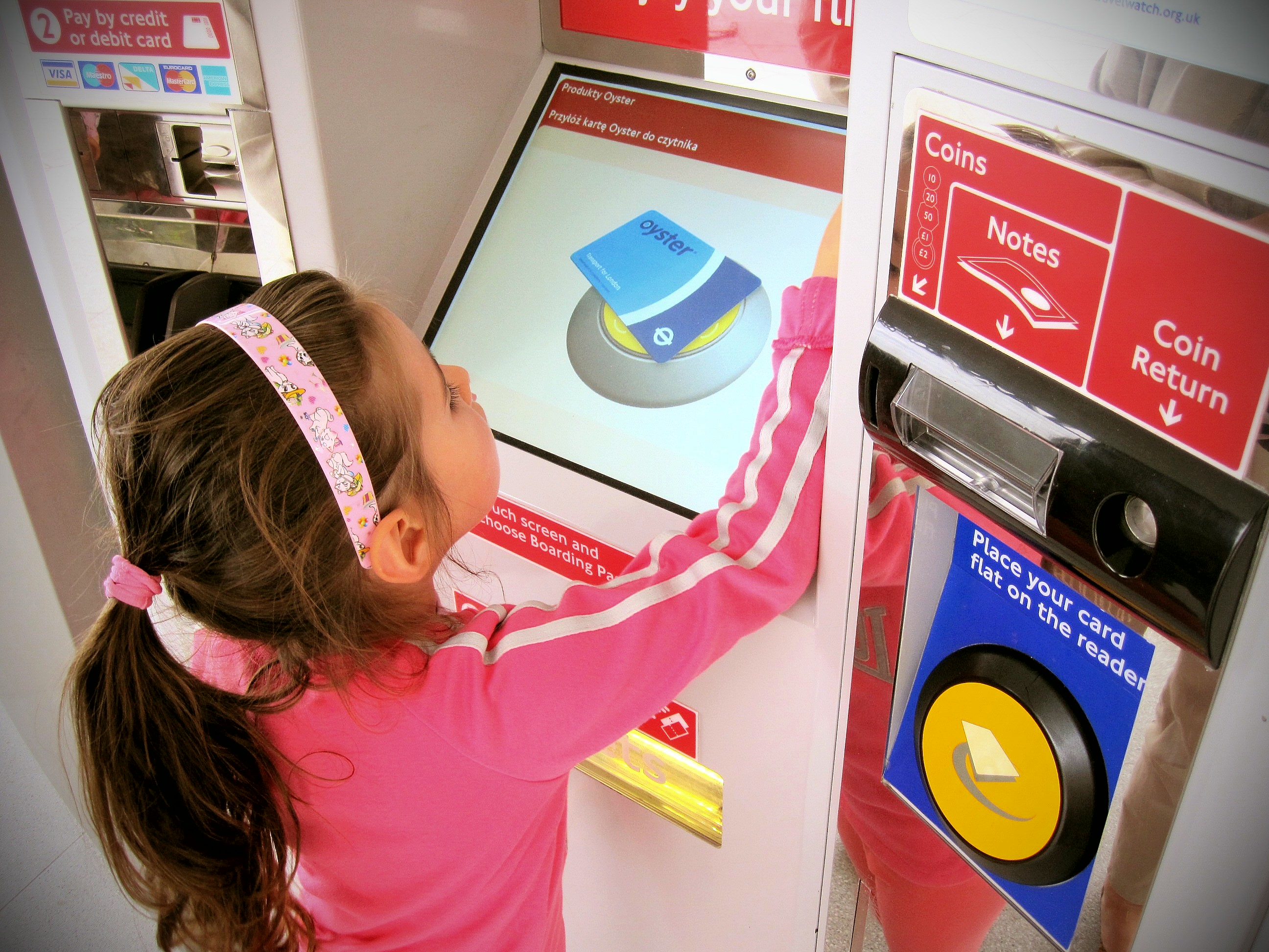 Girl using Oyster card top-up machine at Emirates Royal Docks (London).